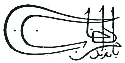 Tughra (i.e., seal or signature) of Bayezid I, Sultan of the Ottoman Empire (1389-1402). An explanation of the different elements composing the tughra can be found here.